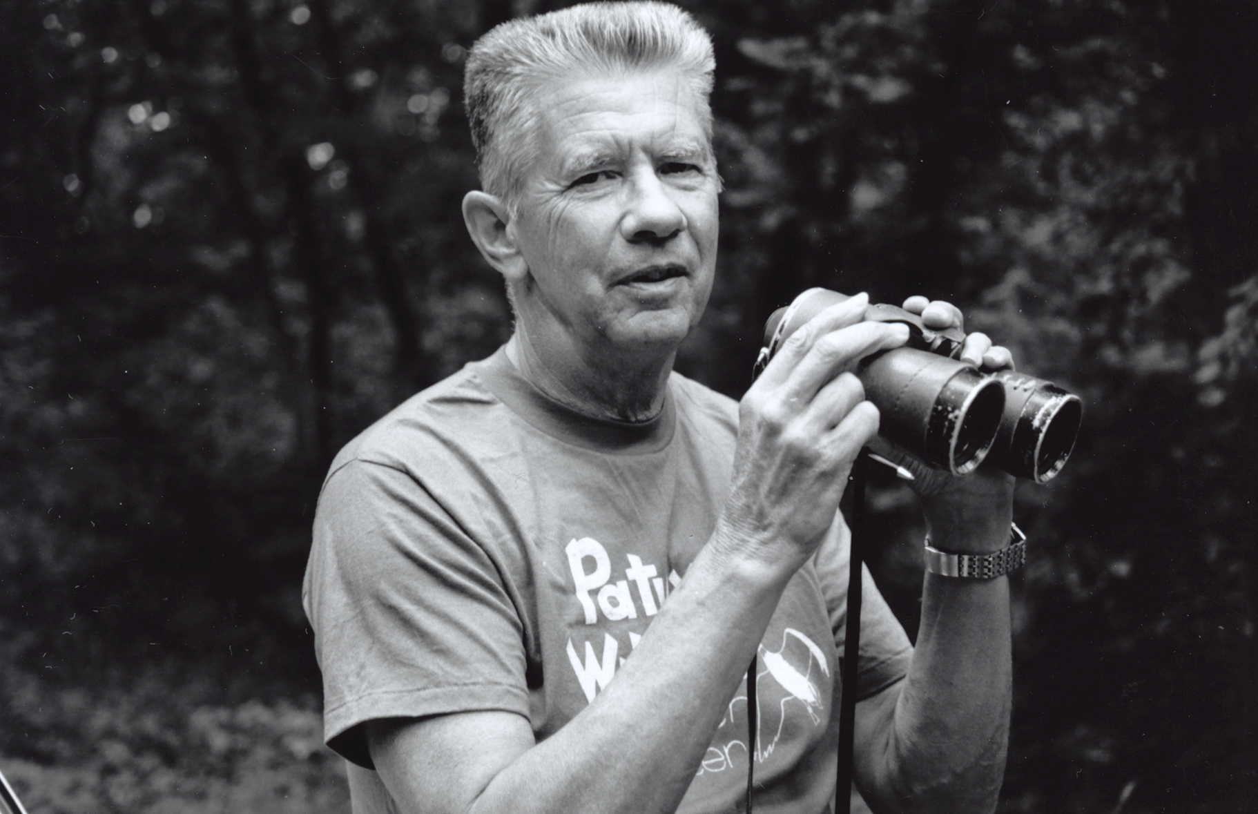 Chandler Robbins, in the field. Robbins, an American ornithologist, wrote an influential field guide to birds and organized the North American Breeding Bird Survey.